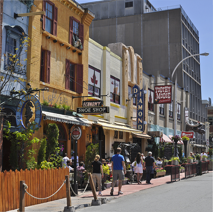 The iconic shot of Argyle Street patios in the summer.